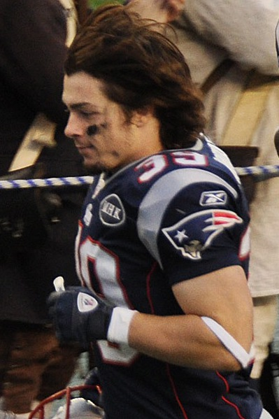 Danny Woodhead and Deion Branch